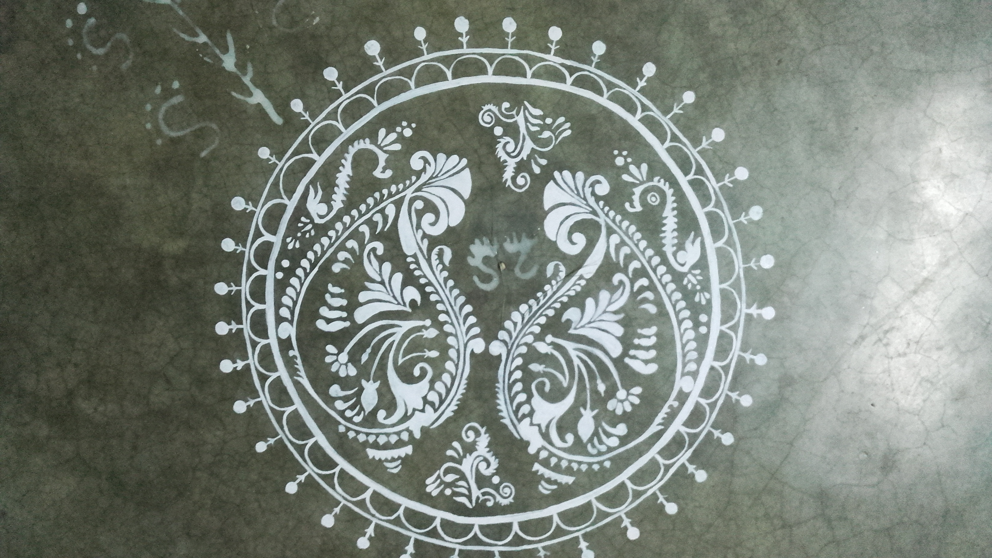 তেল রং দিয়ে দেওয়া আলপনা